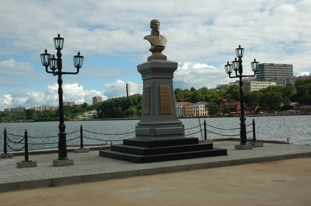 Deryabin monument in Izhevsk, Russia